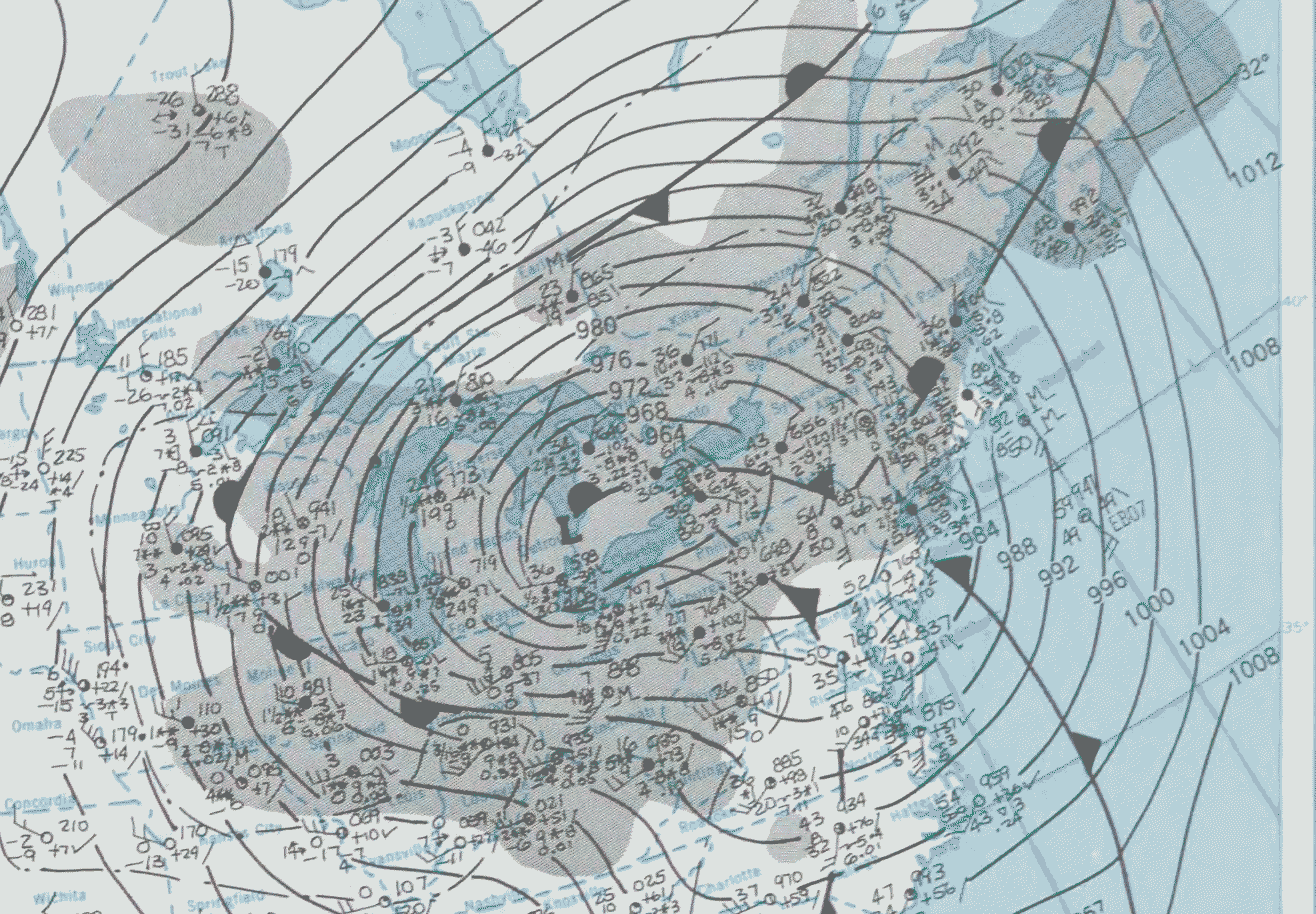 Surface weather analysis of the Great Blizzard of 1978 on 26 January 1978.